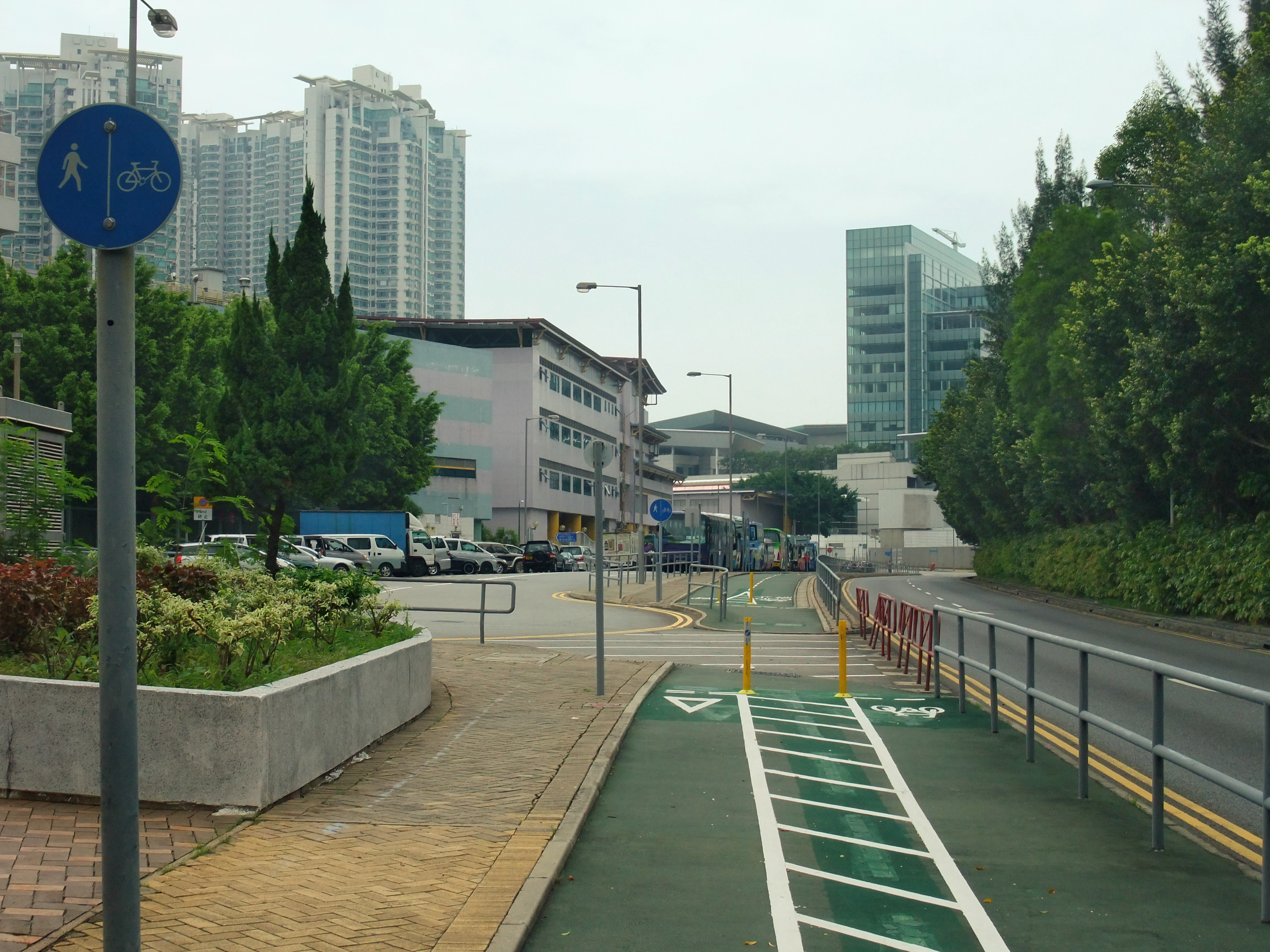 Fu Tung Street (left) and Cheung Tung Road (right), Tung Chung, New Territories, Hong Kong.